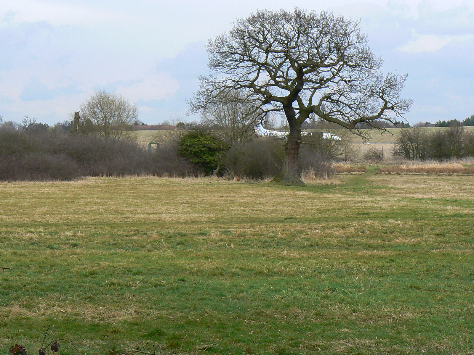 Country park, Sheldon This area of parkland is just east of an area of municipal housing. Birmingham International Airport is beyond the tree.